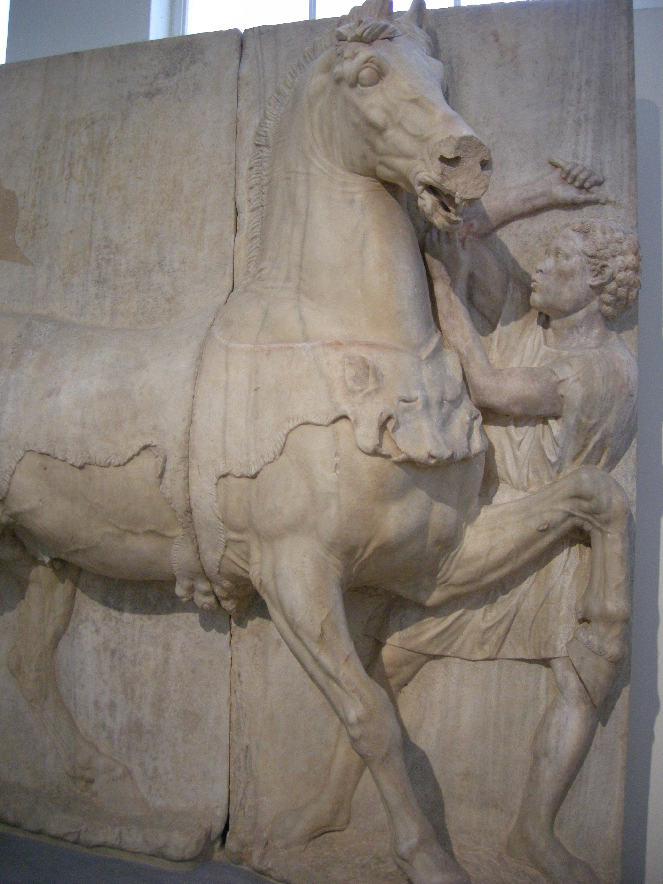 A young Ethiopian groom slave tries to calm a horse down. He holds a whip in his raised right hand and the reins in his left one. Funerary stele from Attica, right side of a two-panels relief. Pentelic marble, found near the Larisis railway station, date unknown (maybe 4th century BC or 1st century BC). If belonging to the later date, may have been made in hounour of king Mithridates of Pontus.